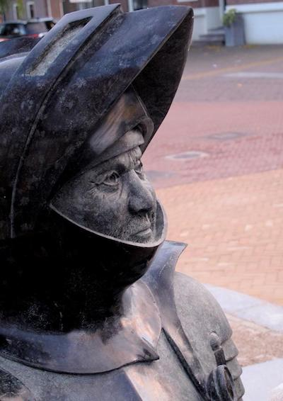 Jan van Schaffelaar